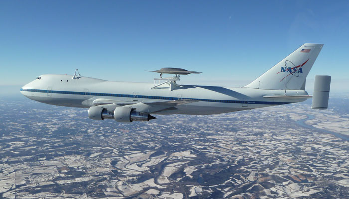 The Shuttle Carrier Aircraft, NASA 905, carries the Phantom Ray, a 36-foot stealth unmanned combat air vehicle (UCAV) manufactured by Boeing Integrated Defense Systems, on a 50-minute test flight at Lambert International Airport in St. Louis, Missouri on 13 December 2010. This was the first time in its 33 years of service that the Shuttle Carrier bore an aircraft other than the space shuttle.